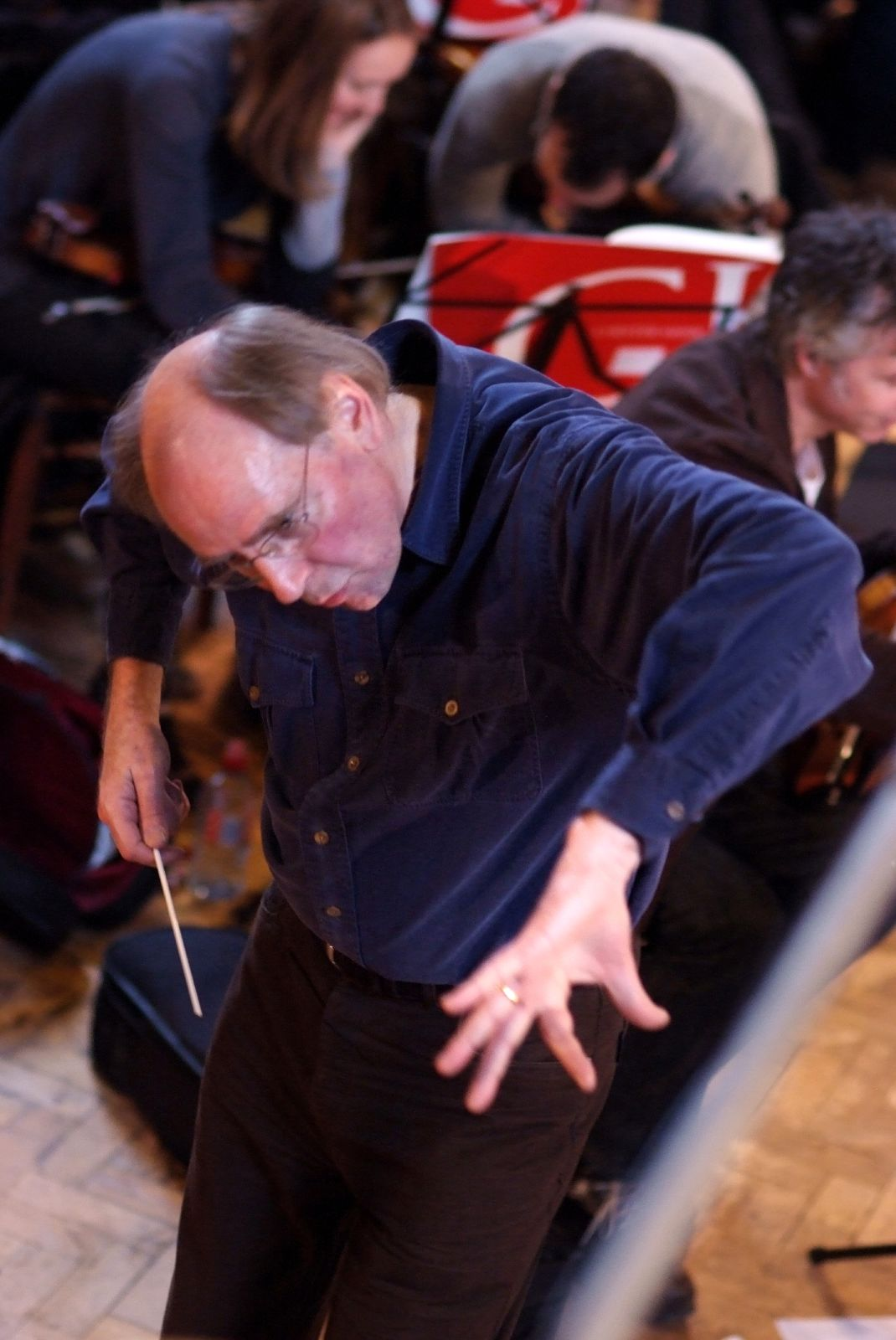 Andrew Parrott at Church of St. Jude, Hampstead, London